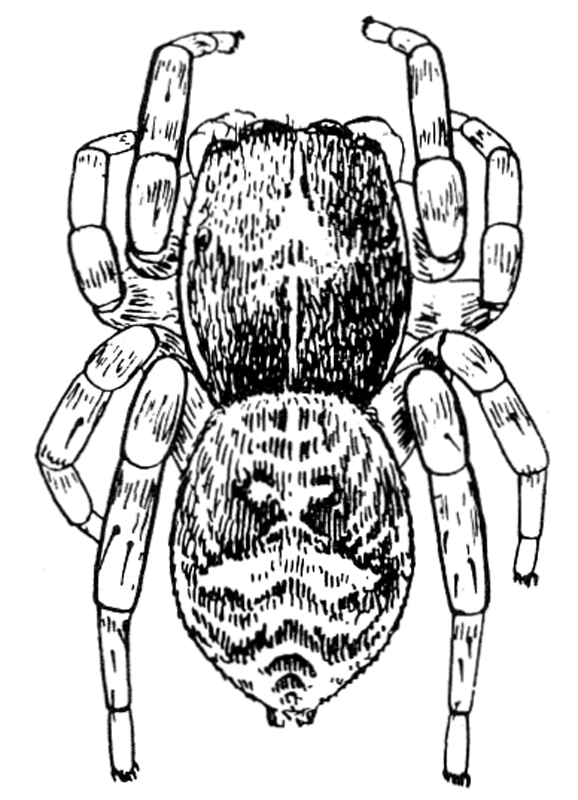 Attus palustris, enlarged six times.